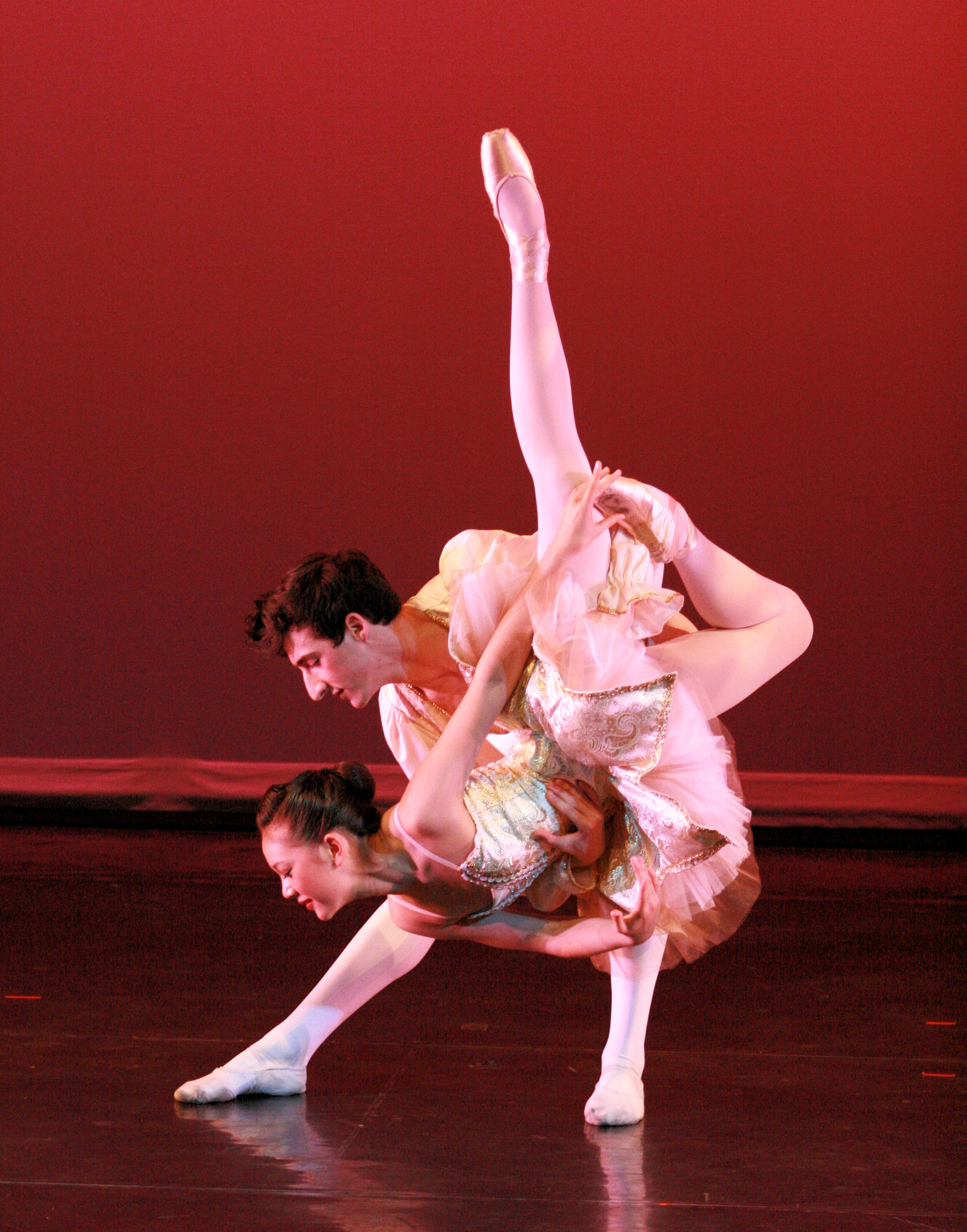 Daria L and Ross performing Paquita Pas de Deux from the classical ballet Paquita. This image was captured at a NW Fusion Dance Company concert at the World Trade Center Theater in Portland, Oregon. The image was derived from an original photograph by cropping and adjusting brightness/contrast.